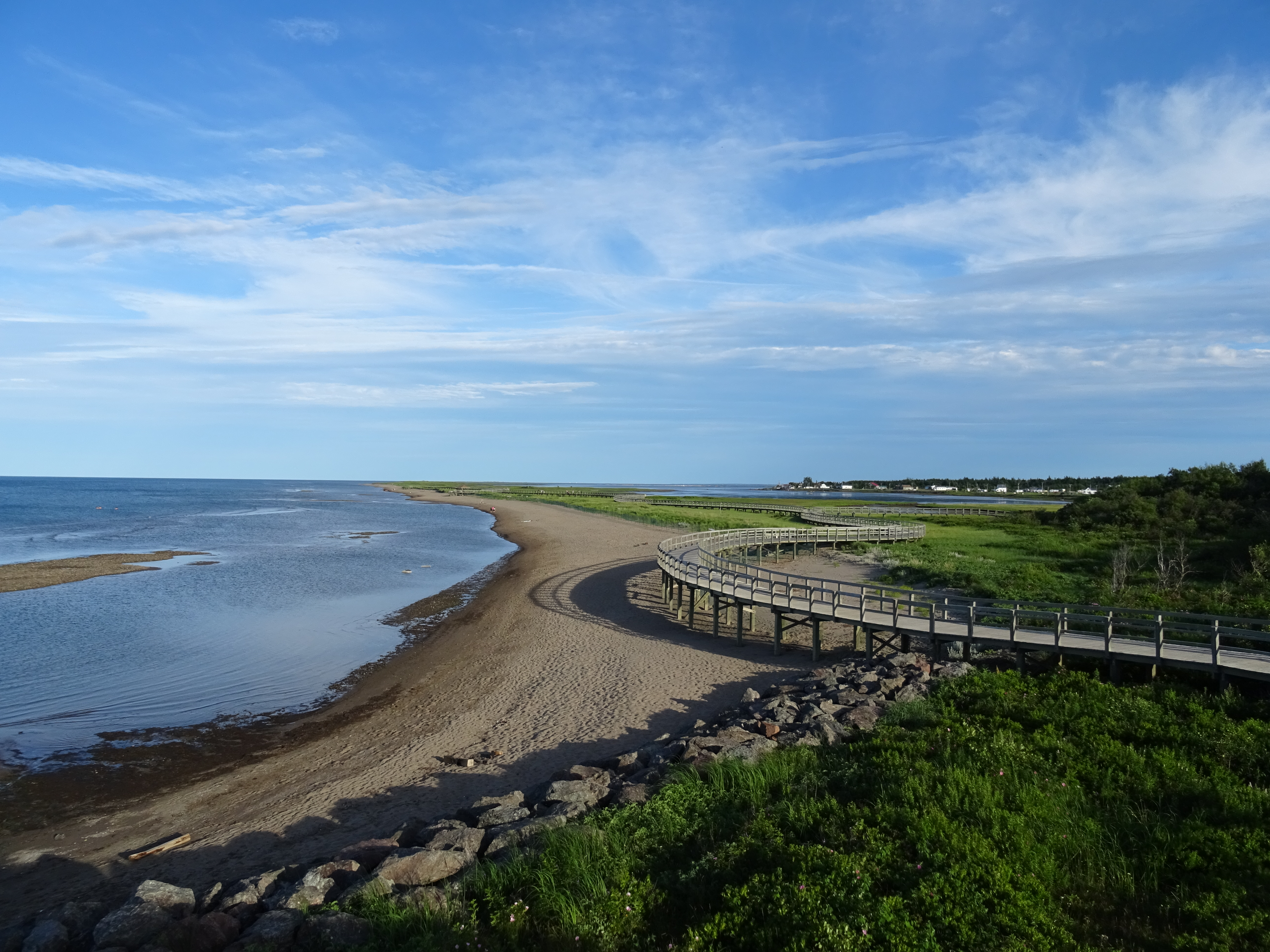 View from the observation deck of La-Dune de Bouctouche Irving Eco-Center in Saint-Edouard-de-Kent, New Brunswick, Canada.